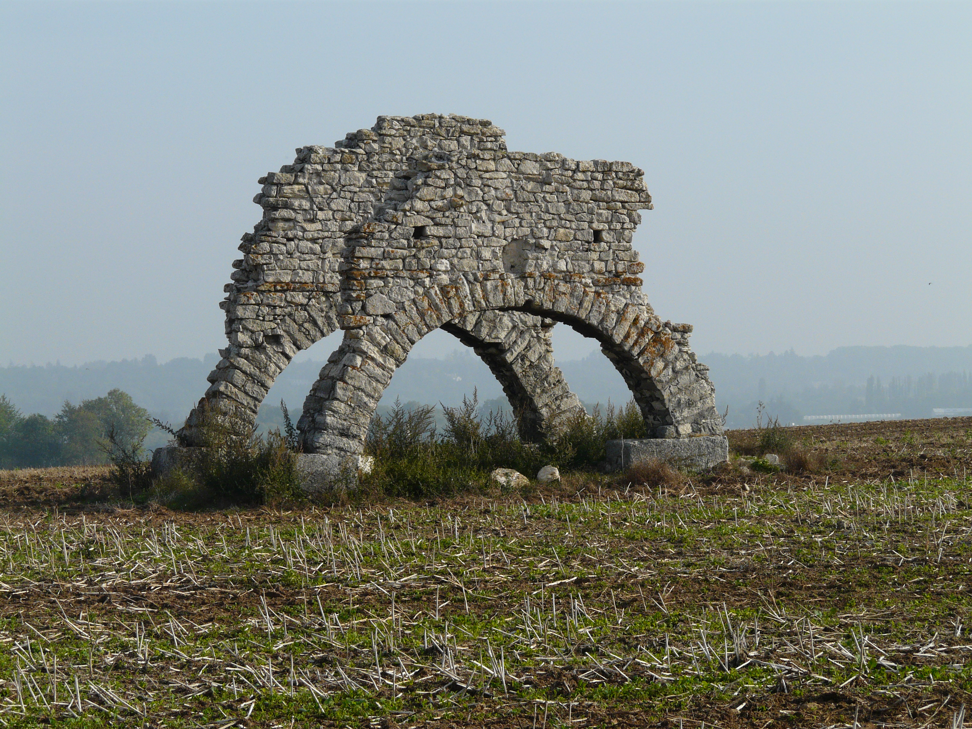 Arche carrier